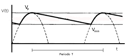 Graph showing the tension on a load in a rectifying circuit